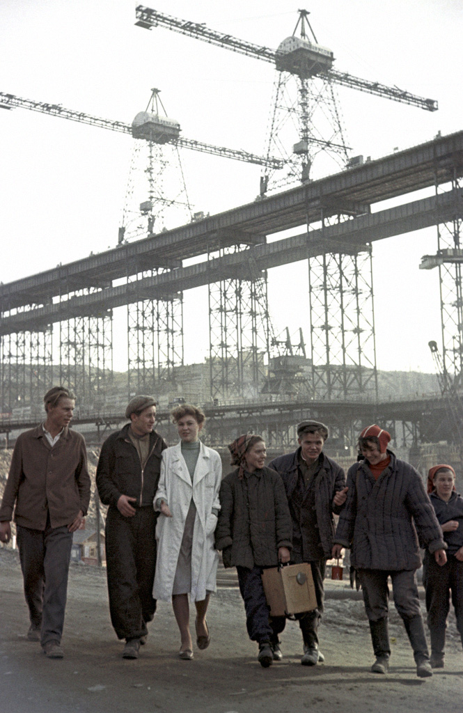 “Construction of Bratsk hydroelectric power station”. Builders at construction site of Bratsk hydroelectric power station.